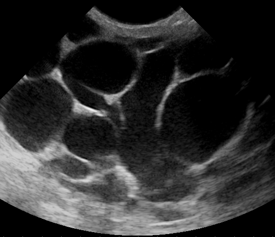 Medical ultrasound image. Provided as-is. Please feel free to categorise, add description, crop.